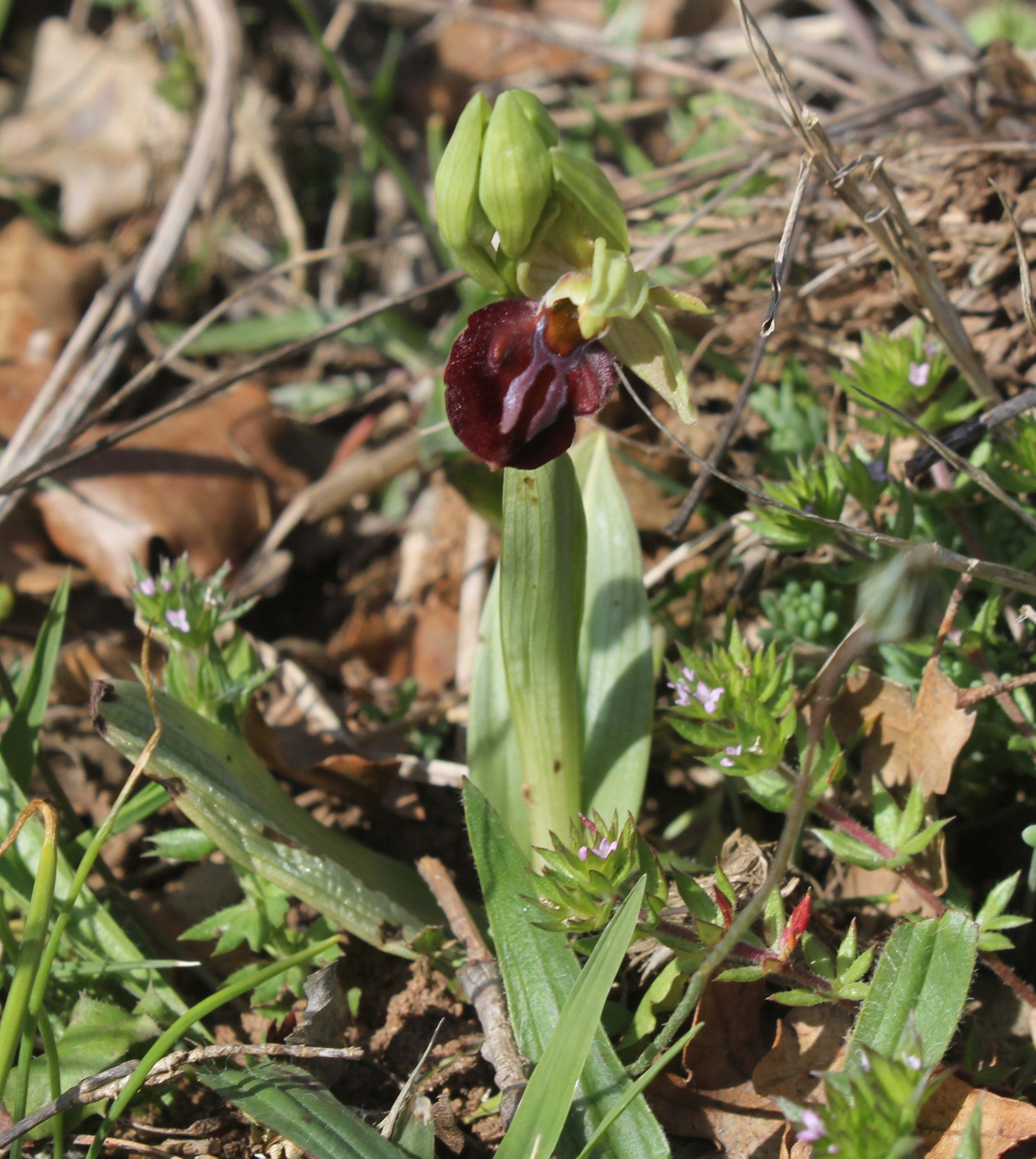 Ophrys sphegodes subsp. catalcana scape